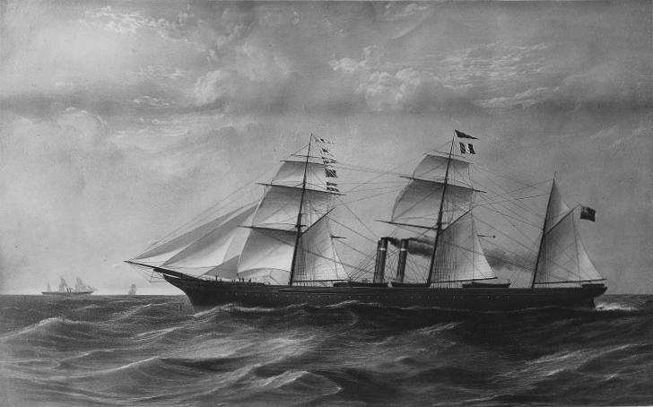 Allan Line 1,764 GRT sail-steamer Canadian. 1904 lithograph of an 1855 painting by William Clarke. Silver salts on glass, gelatin dry plate process, 20 × 25 cm.